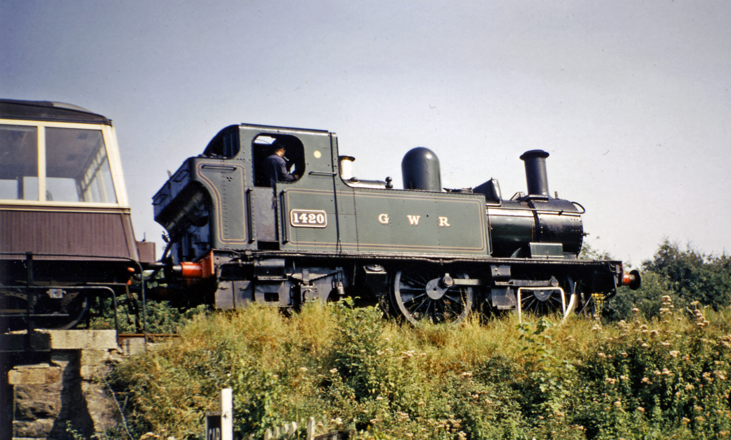 Preserved GW 0-4-2T with Devon Belle observation car at Buckfastleigh, Dart Valley Railway. Withdrawn in 1964 (see SO5058 : GW 0-4-2T in the Goods yard at Leominster), No. 1420 survived into preservation in 1969 on the Dart Valley Railway (South Devon Railway from 1991). The observation car is one of the two that were employed between Waterloo and Ilfracombe on the 'Devon Belle' from Summer 1947 until it ceased after Summer 1954, then for a few years were used in North Wales and Scotland.